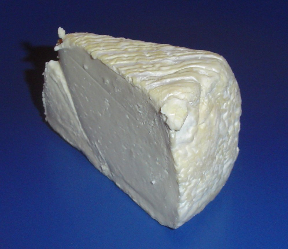 Délice de Bourgogne cheese, France. Photography (c) 2005 Zubro (image by myself).